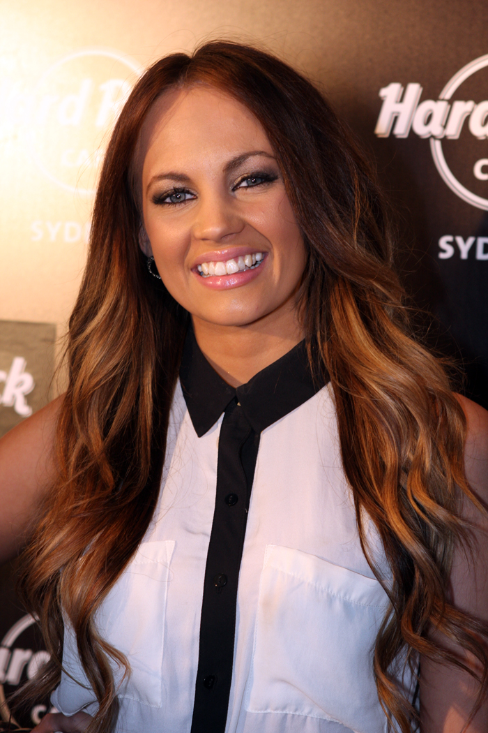 Samantha Jade at the Hard Rock Cafe Darling Harbour Media And Celebs Event; Sydney, Australia